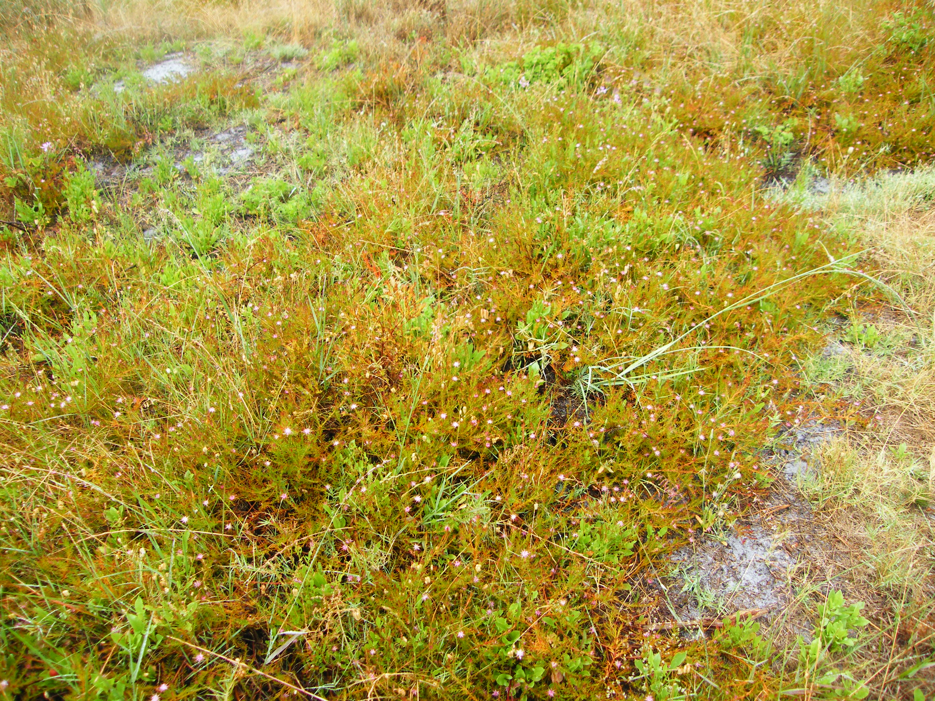 Flats silkypuff